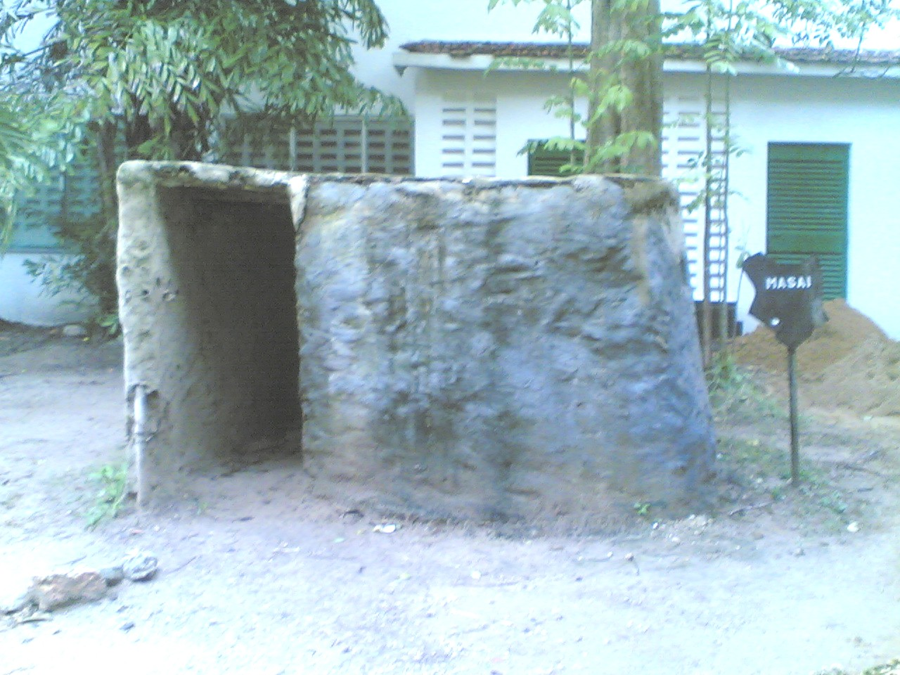 A replica of a Massai hut at the Sarova White Sands Hotel in Mombasa, Kenya.